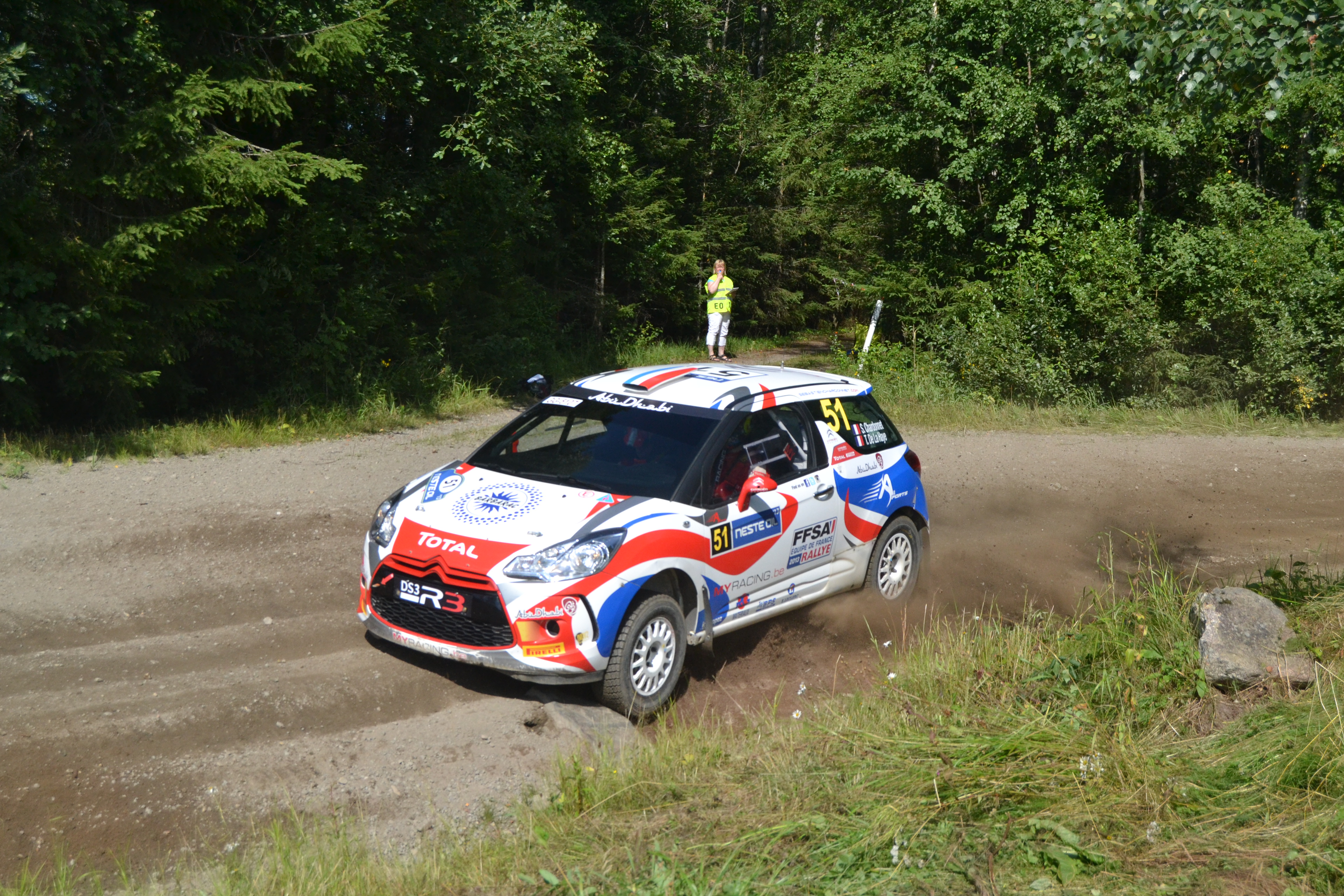 Sébastien Chardonnet at 2nd Surkee stage at 2013 Rally Finland